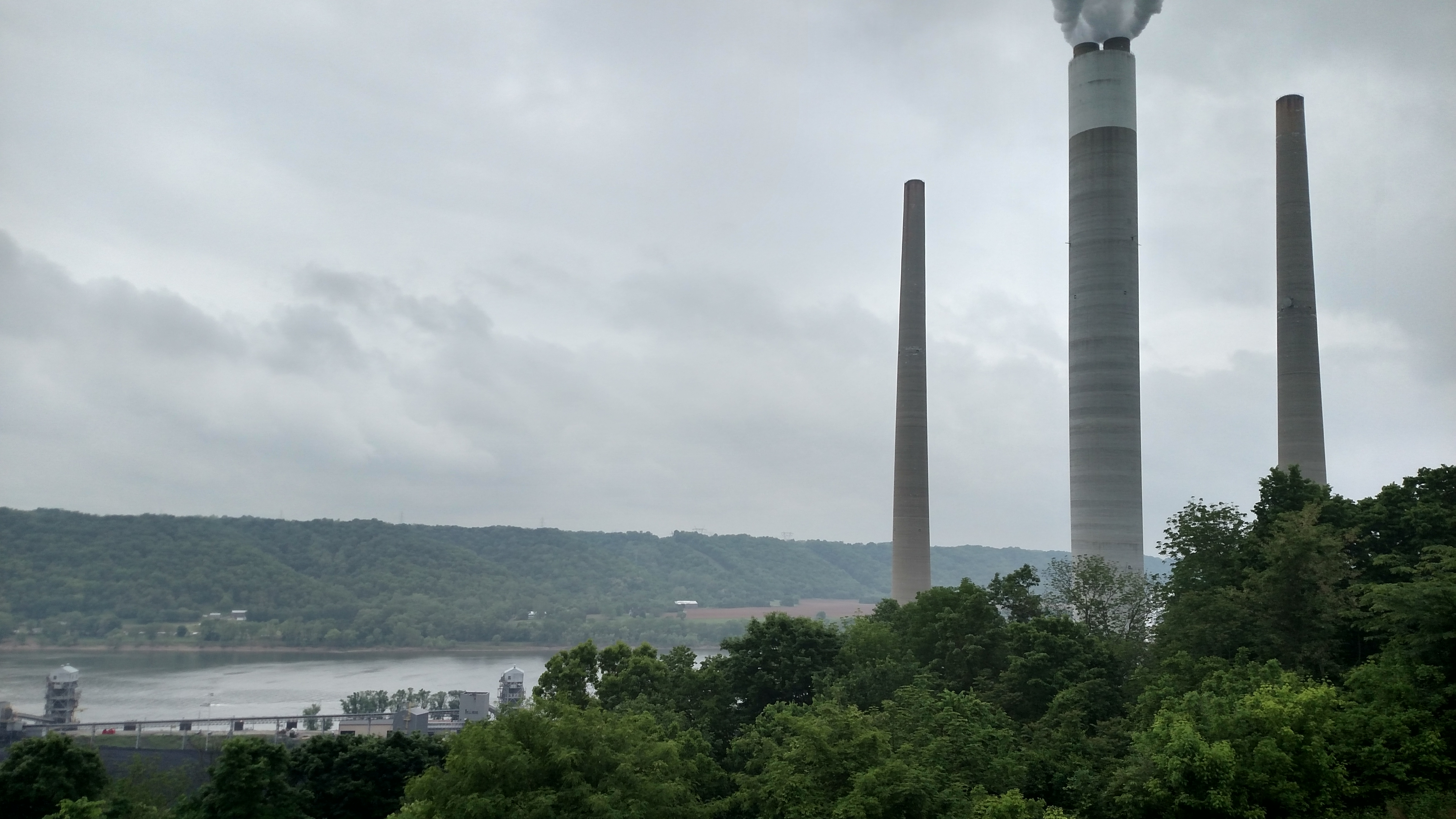 Clifty Creek Power Plant complex taken from the Clifty Inn at Clifty Falls State Park in Madison, Indiana.